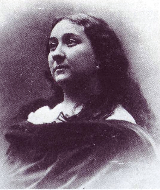 Young Suzanne Lagier (30 November 1833 — 1893). French opera singer and theatre actress.